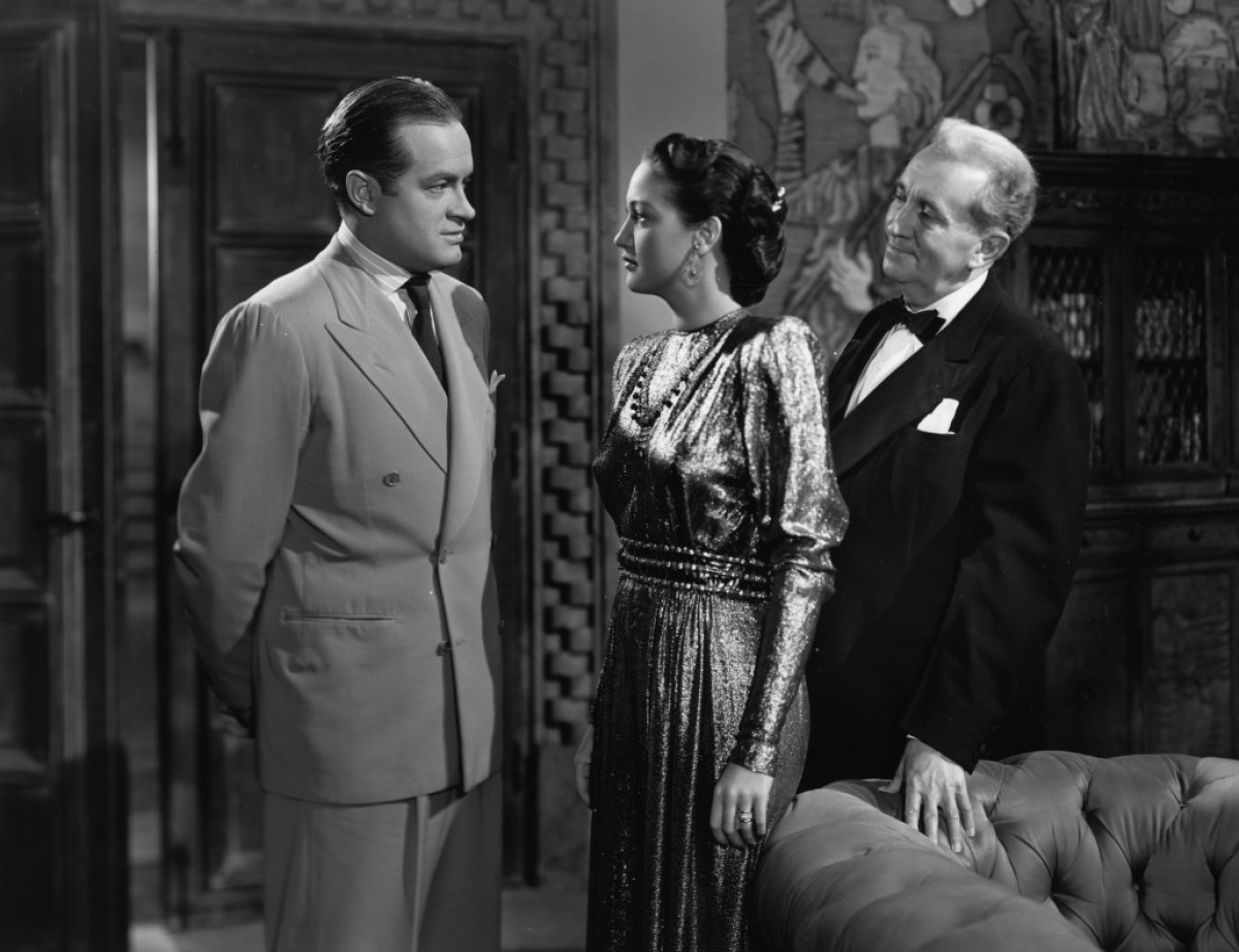 L. to R. : Bob Hope, Dorothy Lamour & Charles Dingle in My Favorite Brunette - cropped screenshot